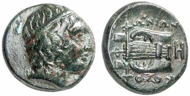 Head of Apollo right, wearing taenia / Rev. K-O-L/O/F-W, Lyre or Kithara within linear square, Astragalos to left and right. Milne 78B. SNG Tübingen 2899. Ancient Coinage of Kolophon, Ionia